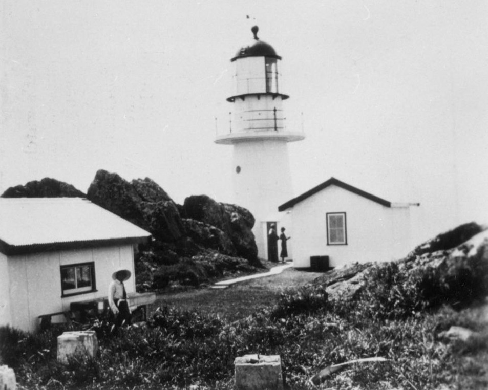 Pine Islet Lighthouse, Queensland, ca. 1935 The lightstation was situated on Pine Islet in the Percy Group, south-east of Mackay.